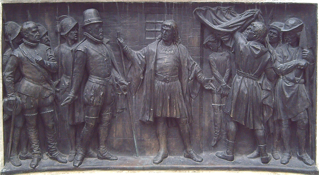 Bronze relief representing The Mayor of Zalamea. Detail of the monument to Pedro Calderón de la Barca (1600–1681) at the Plaza de Santa Ana (square) in Madrid (Spain), made of marble and bronze by Joan Figueras Vila (1829–1881) in 1878 and inaugurated in 1880.